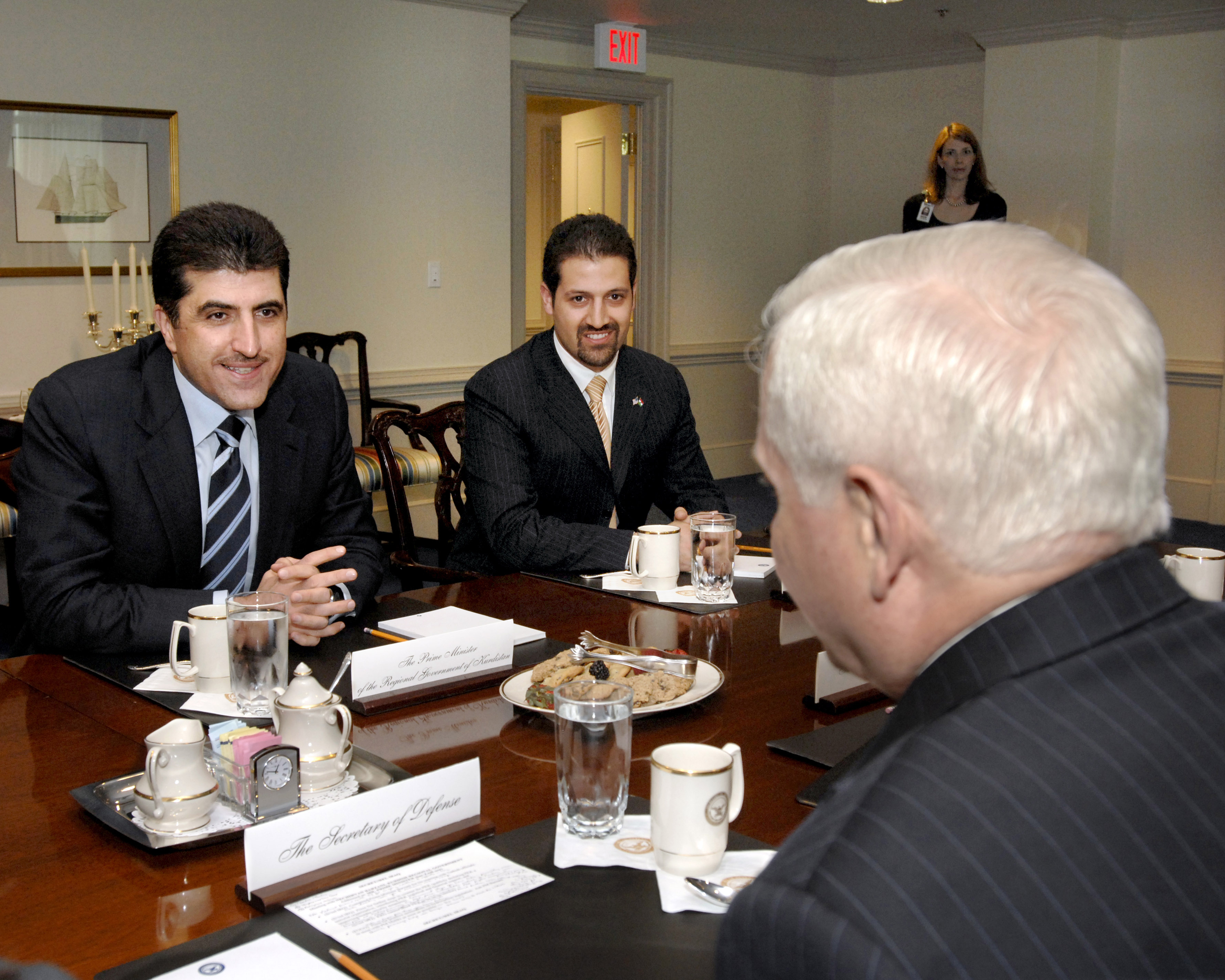 Prime Minister of the Kurdish Regional Government Nechirvan Barzani (left) meets with Secretary of Defense Robert M. Gates (foreground) in the Pentagon on May 21, 2008. Joining Barzani is the Regional Government's Representative to the United States Qubad Talabany (2nd from right).